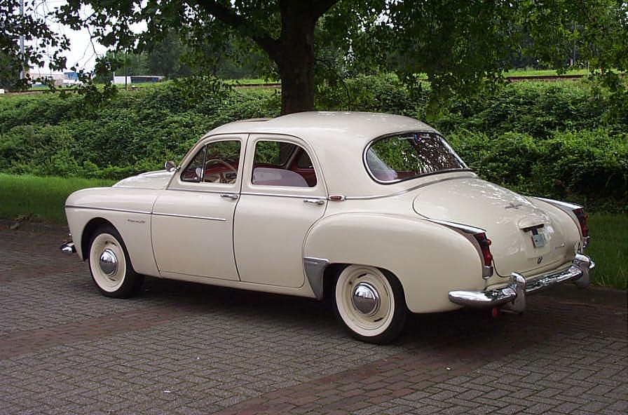 1959 Renault Frégate Transfluide saloon, ivory, interior in red fake leather The vehicle was on sale at the Garage de l'Est at the time the image was uploaded